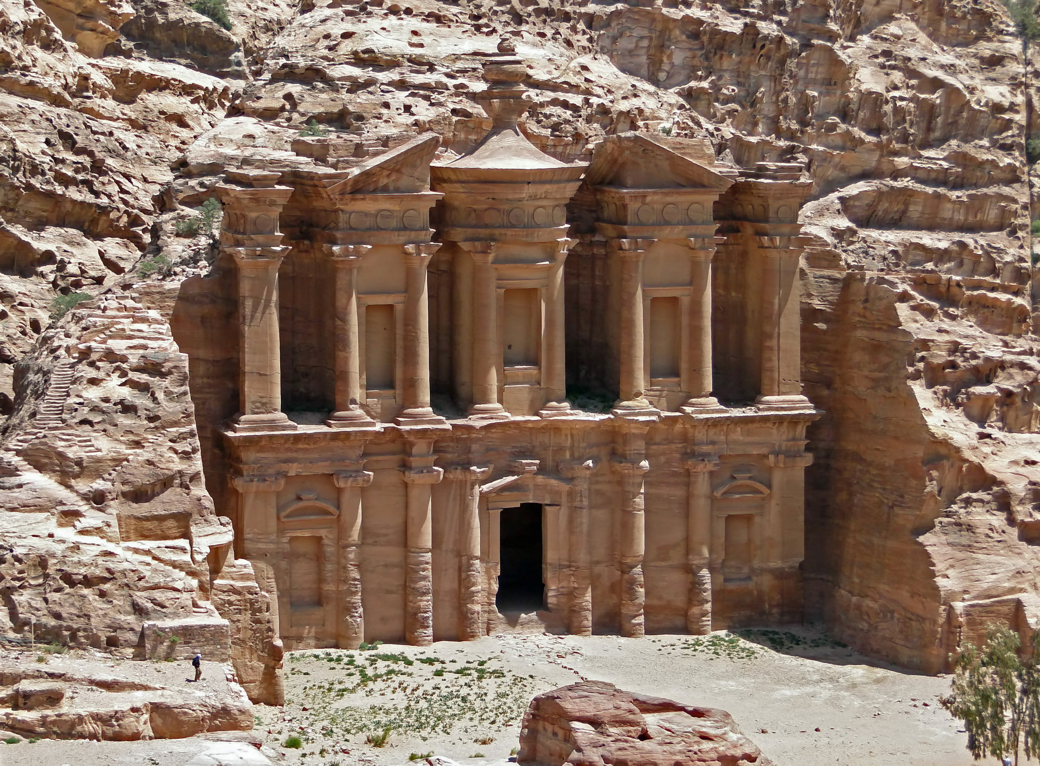 Ad Deir (The Monastery), Petra, Jordan